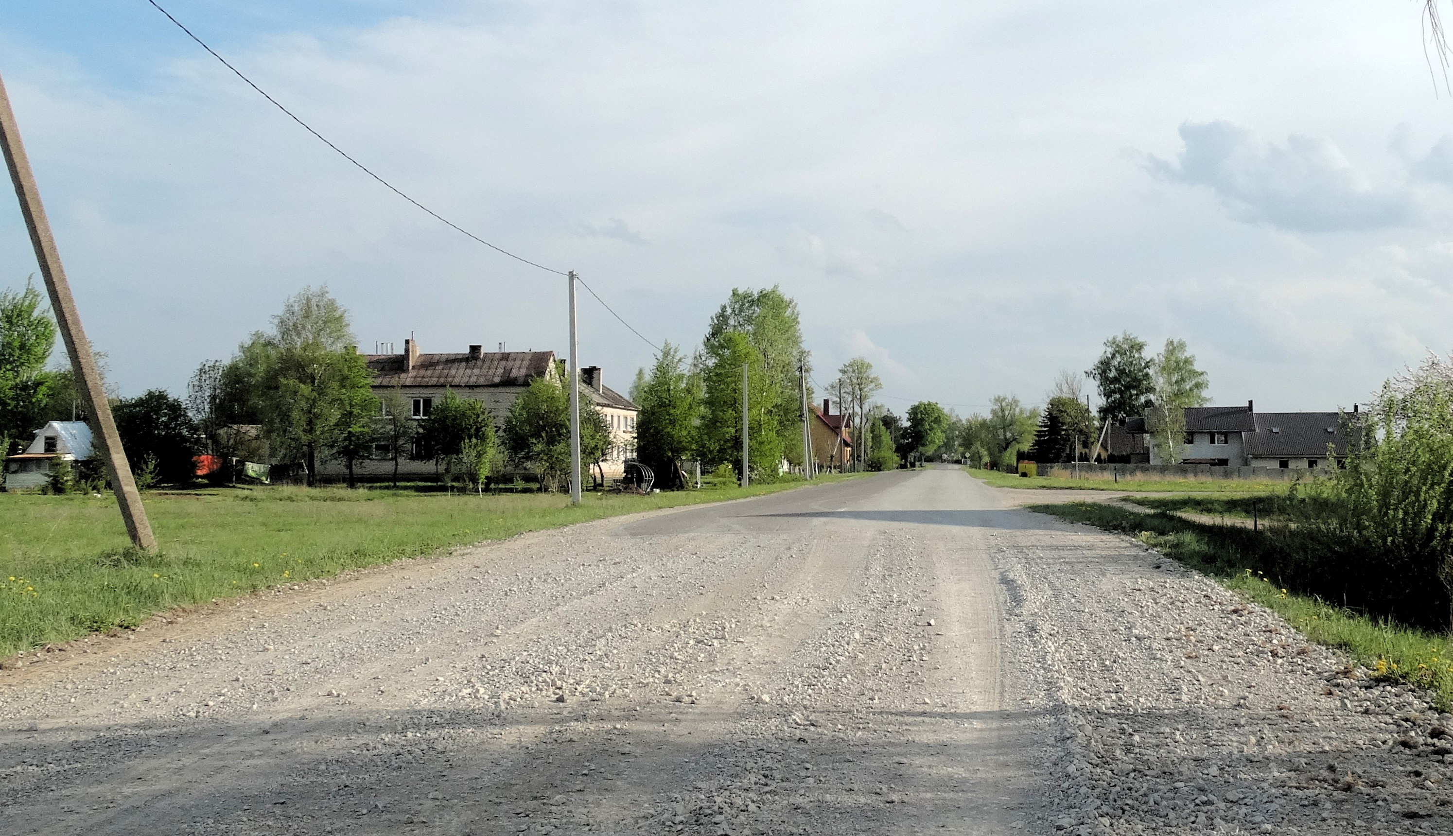 Mažeikoniai, Pakruojis district, Lithuania